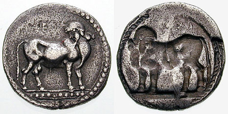 Bruttium, Laus. Circa 510-500 BC. AR Nomos (7.83 g). LAFS (weak), man-headed bull standing right, head turned left; double exergue line separated by a row of pellets NOS raised and retrograde (weak), incuse man-headed bull standing left, head turned to the right. SNG ANS 132; SNG Lockett 362 (same dies); Jameson 254 (same dies); Gorini pg. 13, 4 (same dies); A Guide to the Principal Coins of the Greeks, pl. 6, 6 = BMC Italy pg. 235, 1 (this coin).